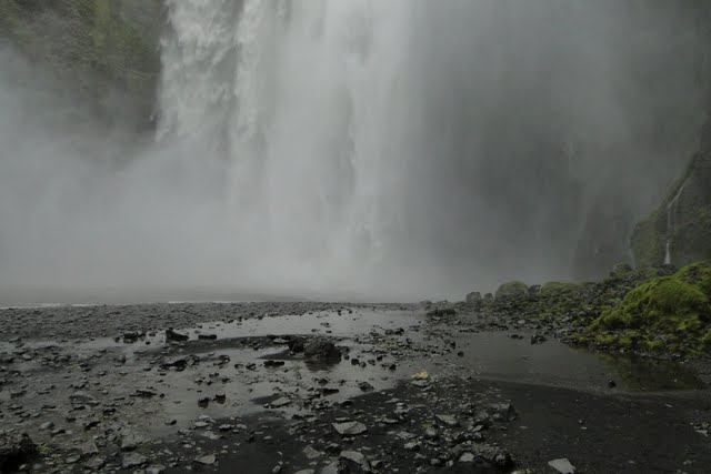 Skogafoss waterfall